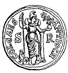 738 woodcuts illustrating the work A Dictionary of Roman Coins, Republican and Imperial (1889). To identify a coin please look at the filename to identify a page number, and check the Dictionary on numiswiki